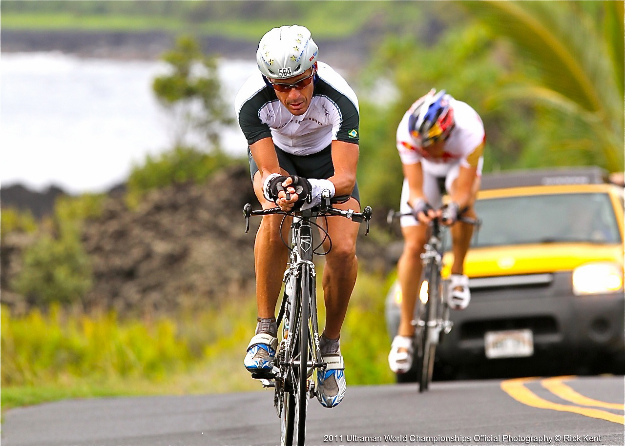 Frontrunners 2nd & 3rd place Stage Two 171 mile bike entering the scenic Road Road